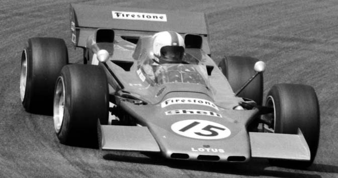 Australian racing driver David Walker at the wheel of the Lotus 56 B Pratt & Whitney gas turbine formula 1 car. The picture was taken in June 1971 at Zandvoort on the occasion of the Dutch Grand Prix there.